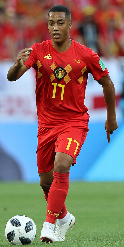 Belgian footballer Youri Tielemans on 28 June 2018, during the 2018 FIFA World Cup group stage match between England and Belgium.